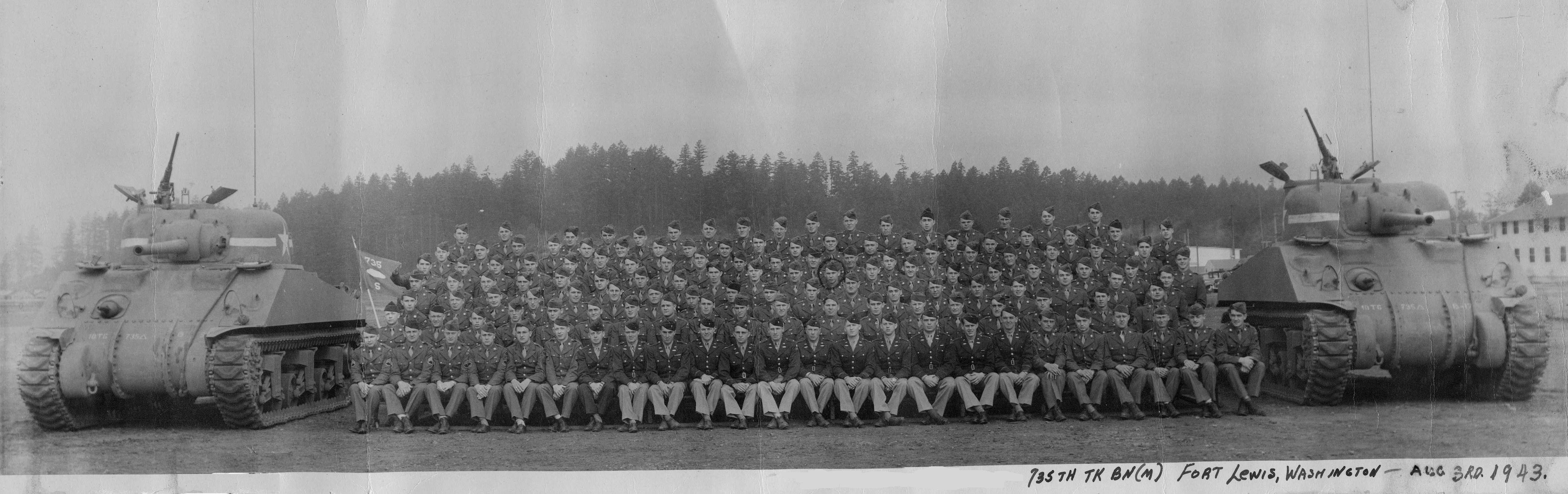 735th Tank Battalion Service Co, Basic at Fort Lewis, Washington, August 3rd, 1943